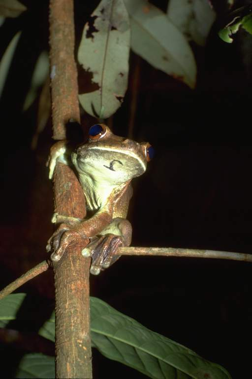 Hypsiboas boans